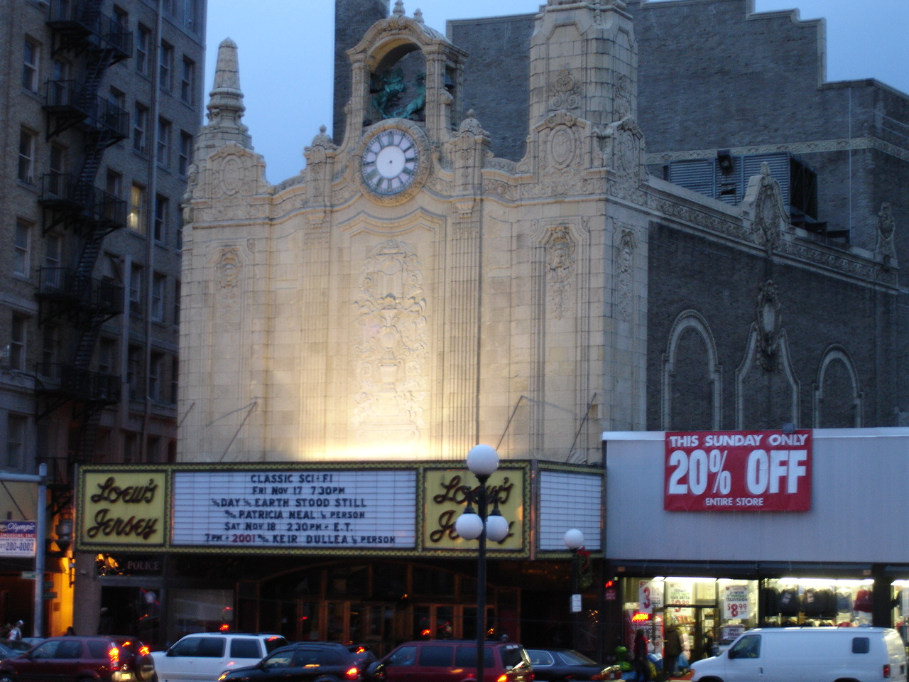 I took this photo in November 2006